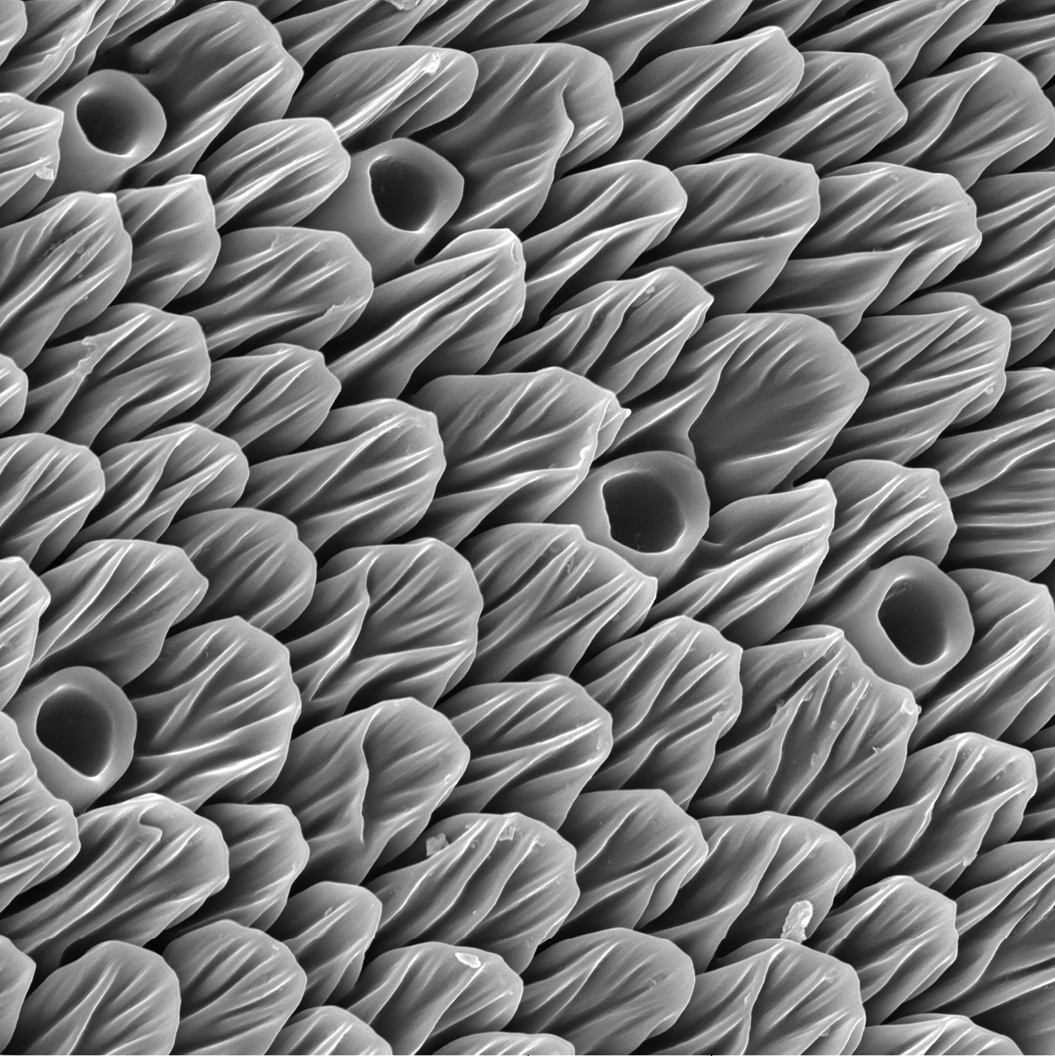 The image, that is taken by scanning electron microscope, shows a detail of European Peacock's (Aglais io) feeler magnified at 7500x. This type of antennae, typical for butterflies, is called clavate (club-like), the segments of flagellum are gradually broaden towards apex. The butterflies’ feelers are primarily olfactory organs. In addition, they perform navigation, orientation and balance function. They are equipped with more than 16 000 olfactory sensors with different shapes (wrinkled scales, hairs or olfactory holes). The most common are olfactory scales (in the present case their density is approximately 150 000 per mm² and their width is from 6 to 11 μm). The olfactory sensors are very sensitive to the presence of pheromones and sugary substances and thus inform the butterfly about the presence of sexual partner or a potential food source. From those holes a bigger scales will grow out, that are structurally similar to the scales on the butterfly wings.